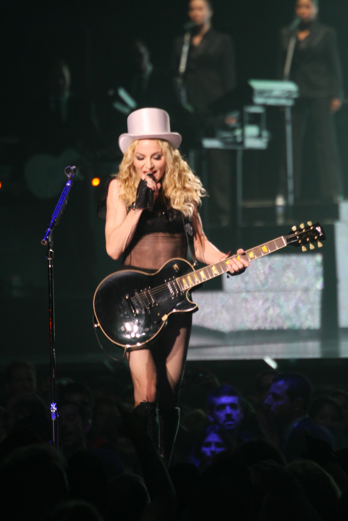 Madonna performing on the Sticky and Sweet tour 2008.